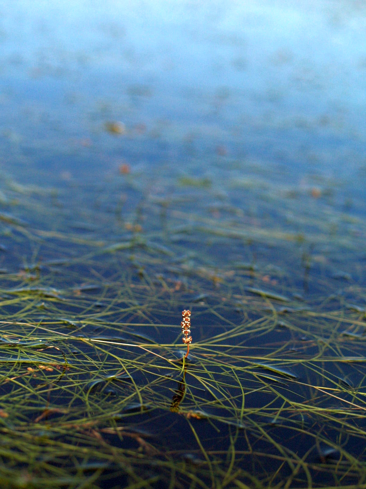 Yu Ito and Anna Skriptsova (2008) Aquatic plant research in Russian Far-East. Bulletin of Water Plant Society, Japan 89: 34-42.